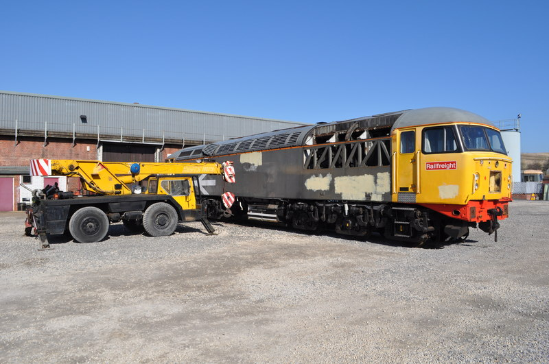 Oystermouth 56040 at Barrow Hill, near to Brimington, Derbyshire, Great Britain. The locomotive was based on the Mid Norfolk Railway but after a hard decision the clas 56 group decided to buy another class 56 in much better condition (56301). Thus meaning 56040 Oystermouth would be scrapped, this as the photo shows is under way. TF9913 : 56040 Oystermouth TF9913 : 56040 Oystermouth